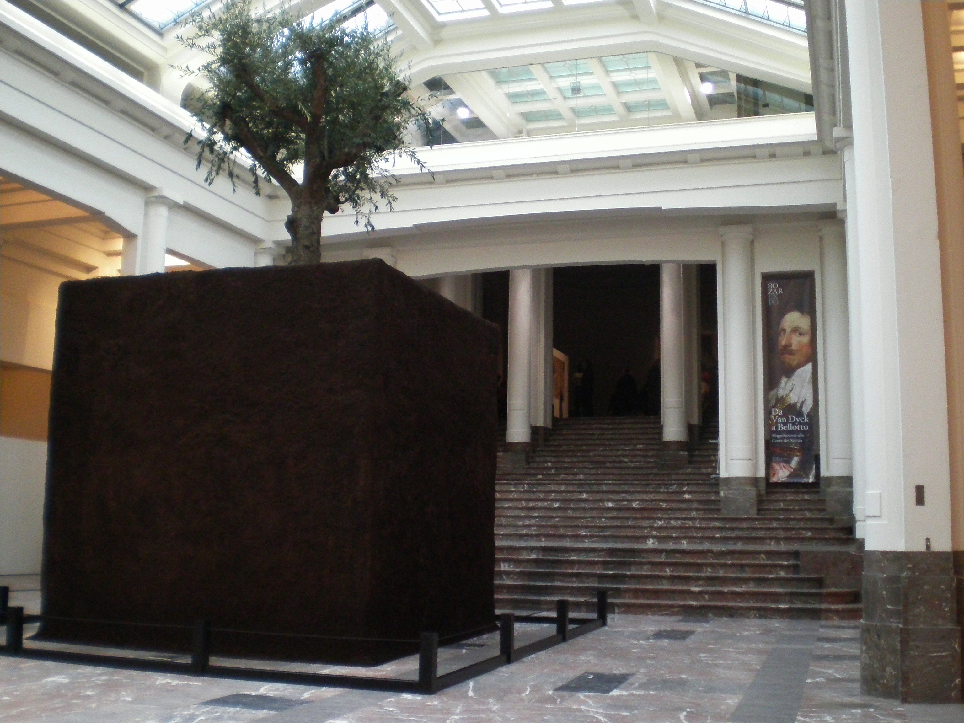 Inside courtyard of BOZAR Museum, Brussels.